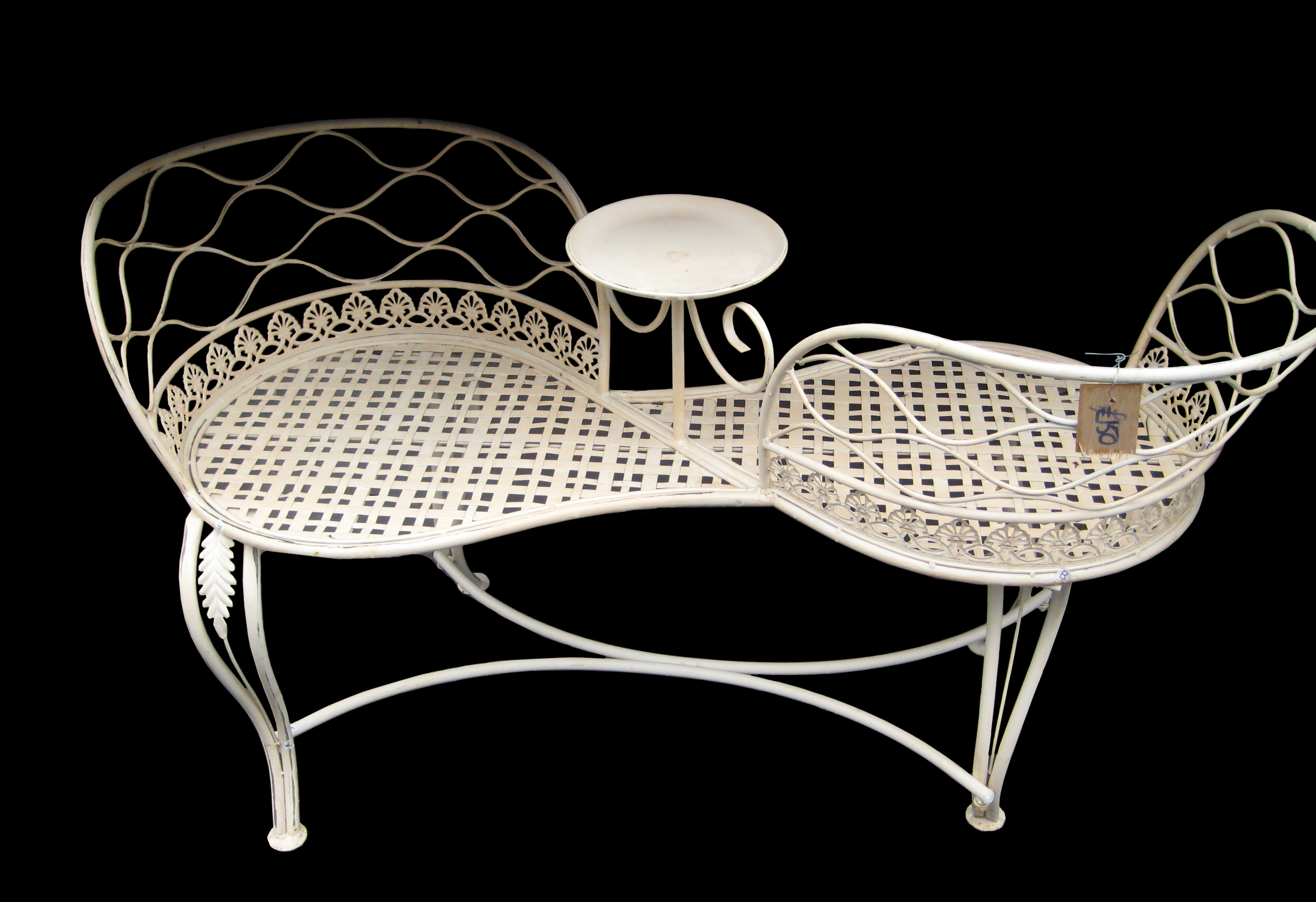 Love seat - garden furniture - cropped